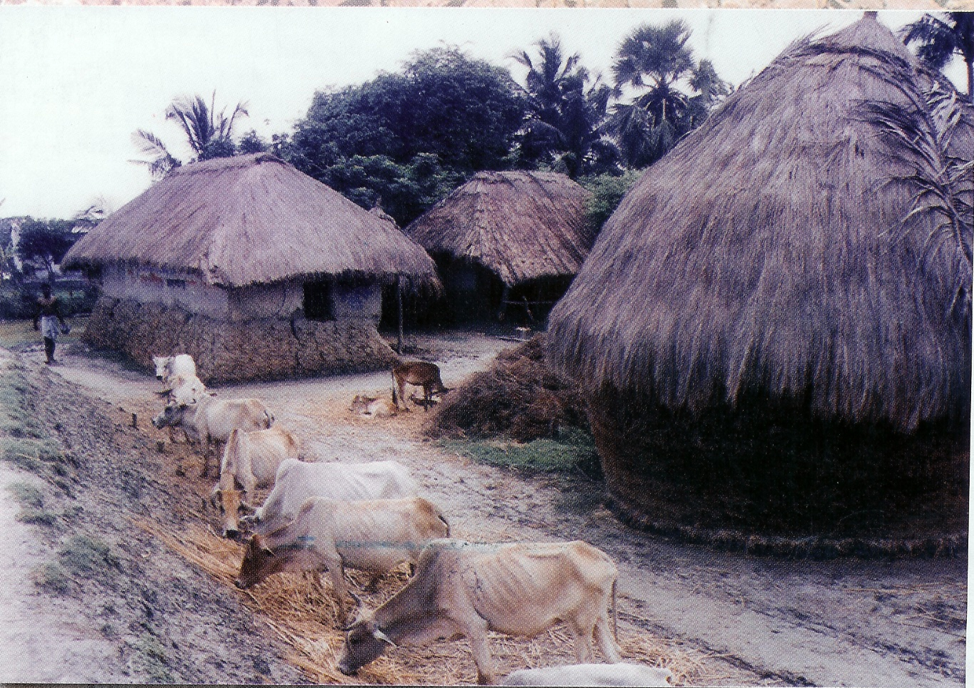 Pic by courtesy Deptt. of Information & Culture, Govt. of West Bengal